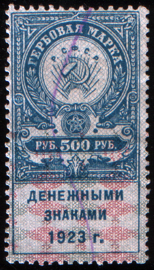 Revenue stamp of RSFSR, 1923, 500r.